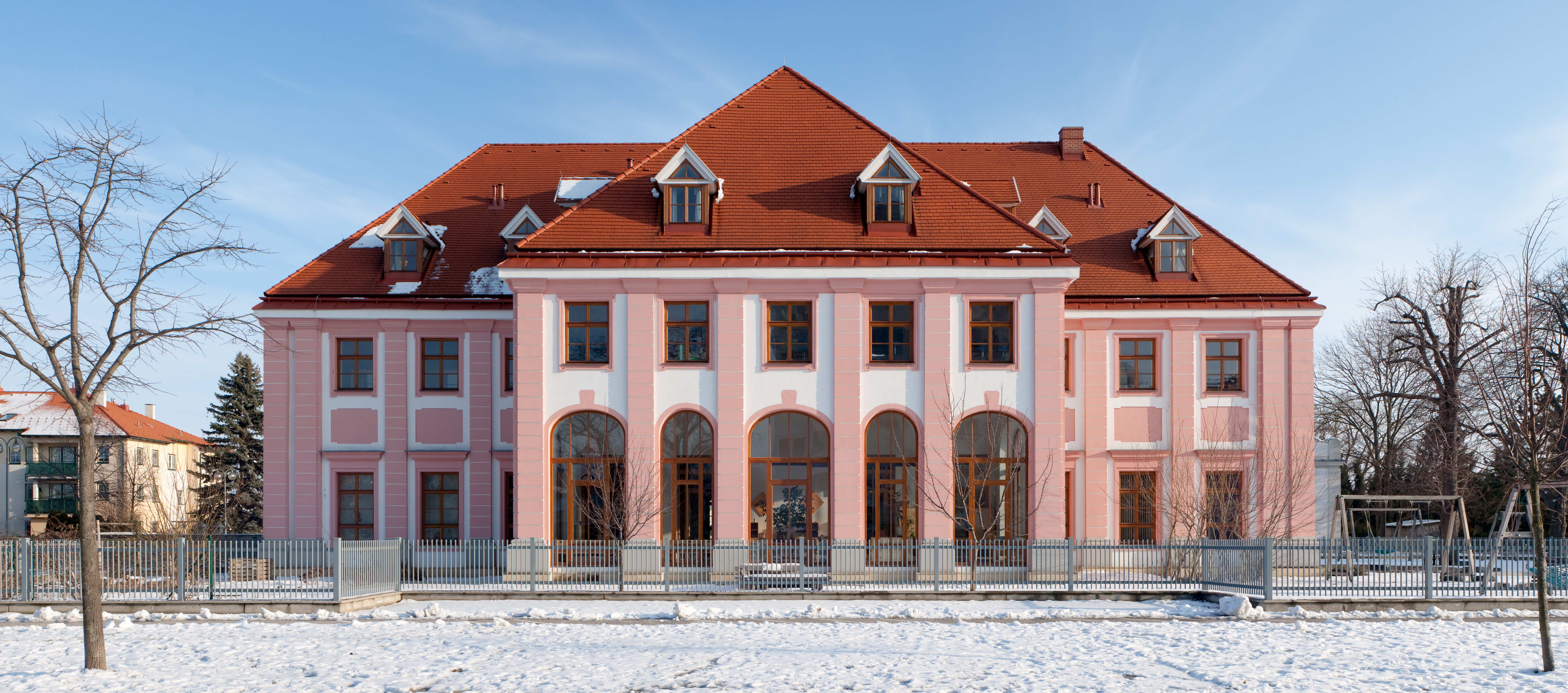 Schlössl Möllersdorf - NÖ Landeskindergarten, a castle in Traiskirchen, today a kindergarten.